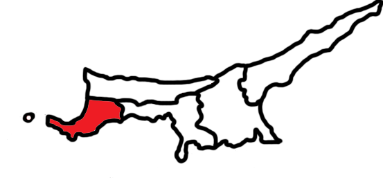 Locator map of the district of Güzelyurt in Northern Cyprus.